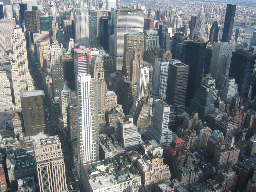 New York NY: Manhattan, view from the Empire State Building